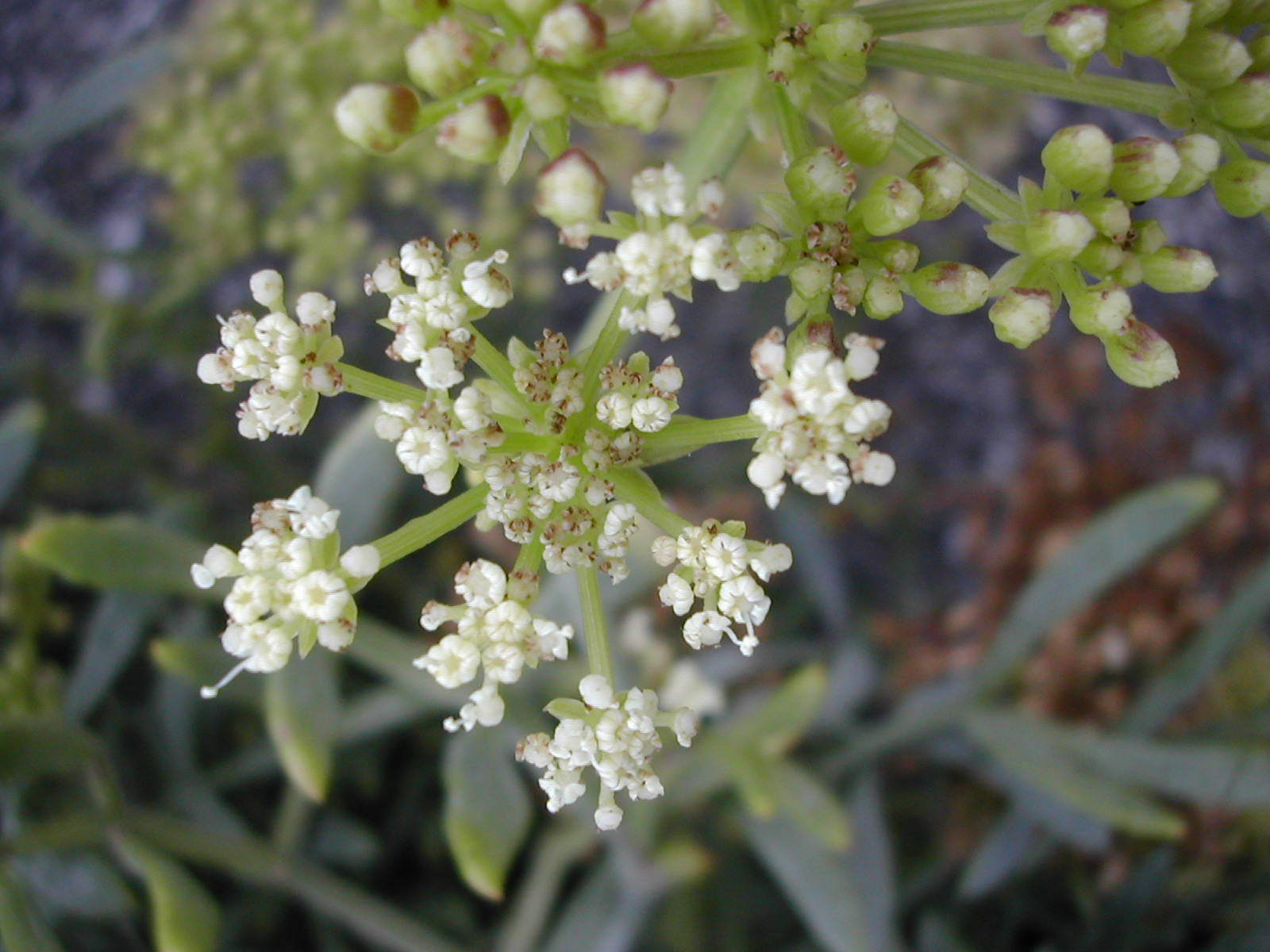 Crithmum maritimum (flowers)